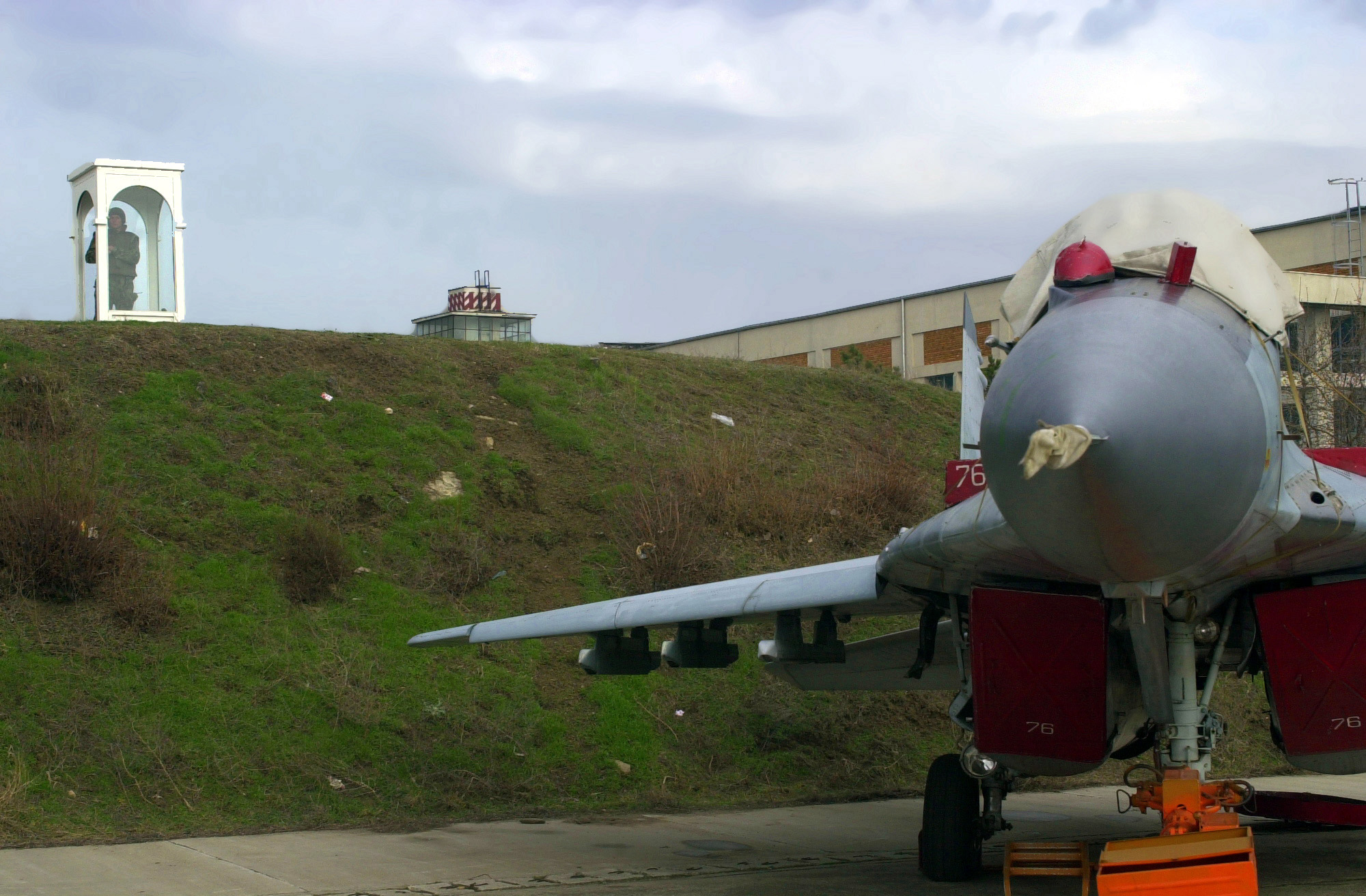 A Romanian Soldier (background left) mans a sentry post while guarding a MIG-29 Fulcrum aircraft at Mihail Kogalniceanu Air Base (AB), Romania, during Operation IRAQI FREEDOM.